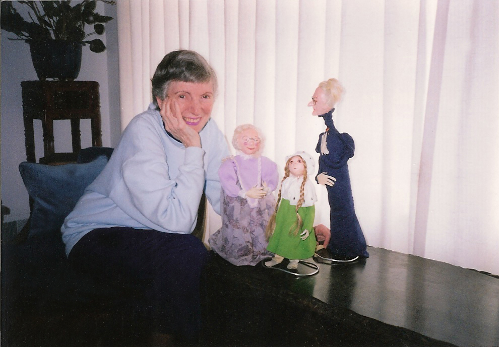 American Author, Barbara Brooks Wallace